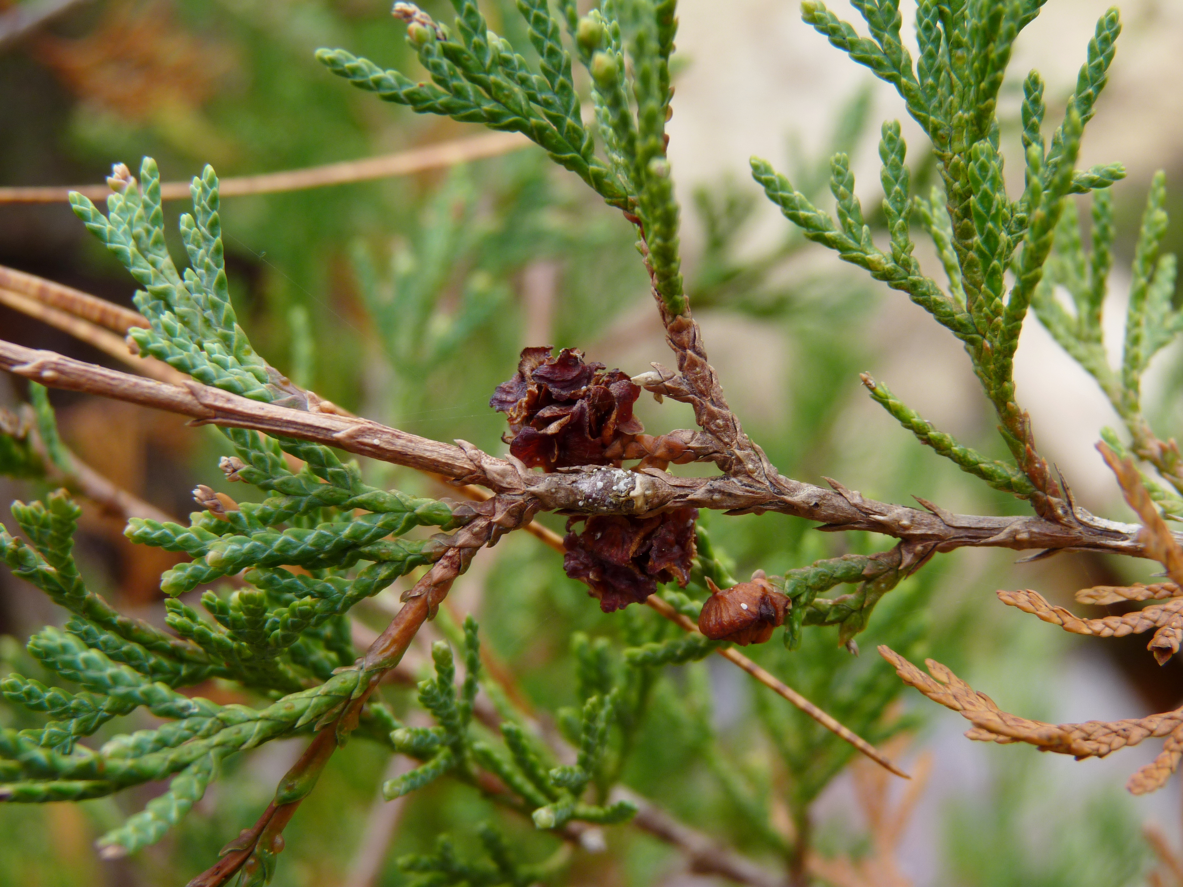 Atlantic White Cypress Chamaecyparis thyoides foliage and cones, Franklin Parker Reserve, Chatsworth, New Jersey.